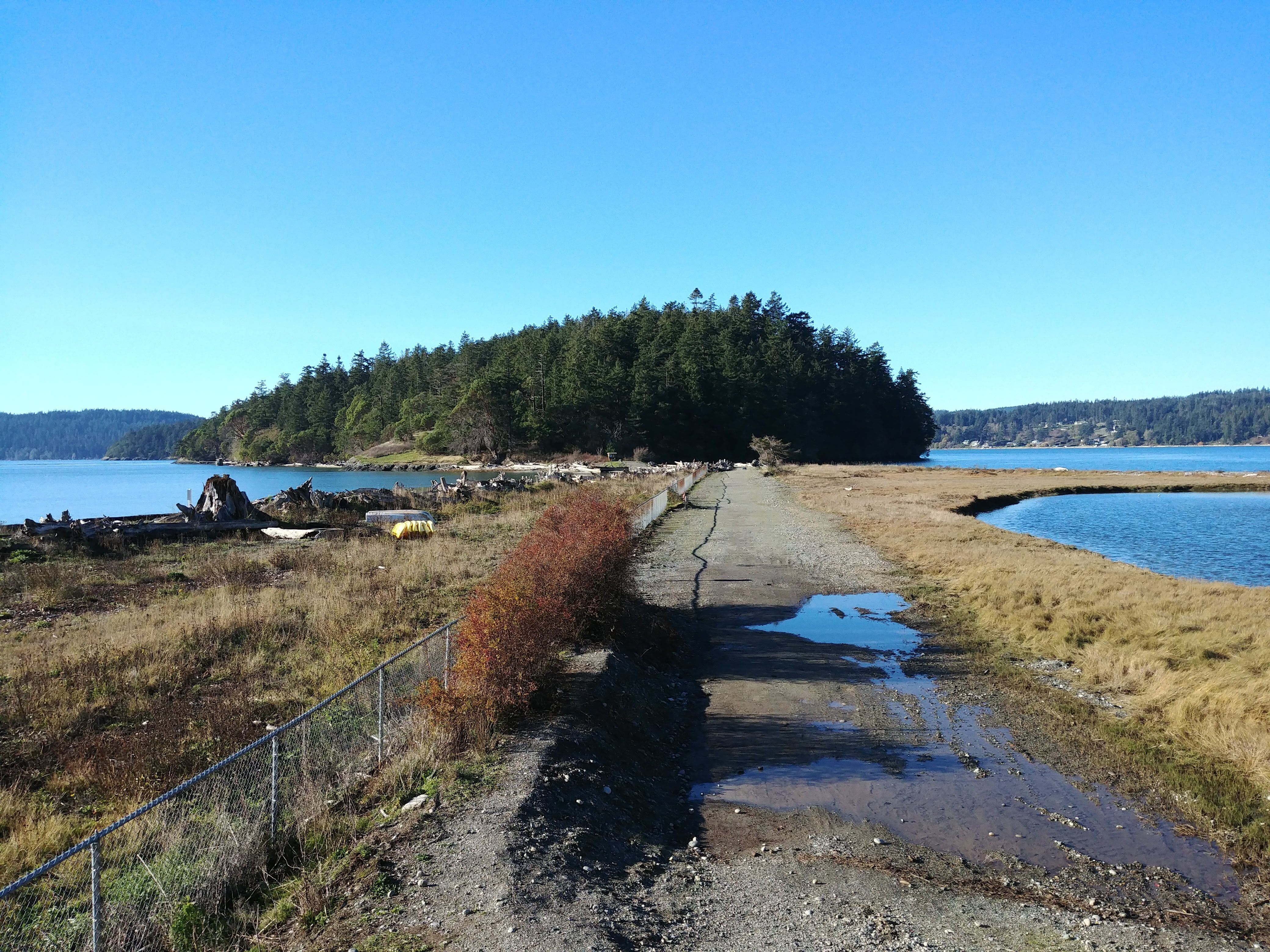 Kiket Island seen from the Fidalgo Island side across the tombolo, while the two islands are connected